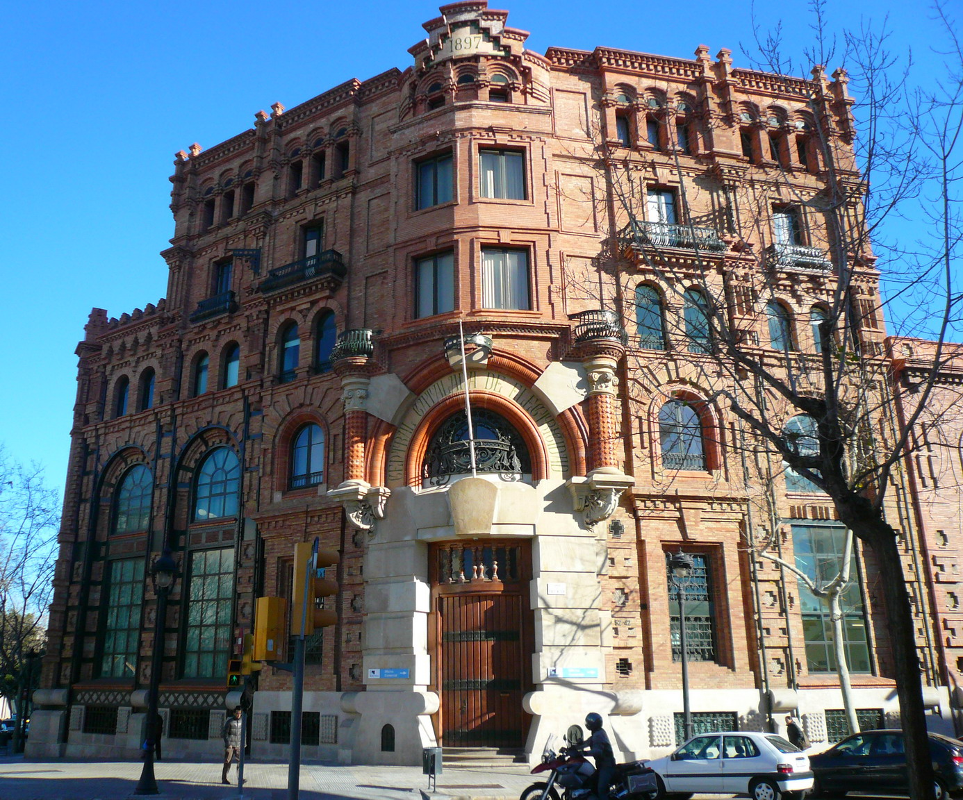 Central Catalana d'Electricitat (1897), Barcelona, by architect Pere Falqués.